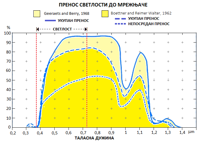 ПРЕНОС СВЕТЛОСТИ КРОЗ ЉУДСКО ОКО